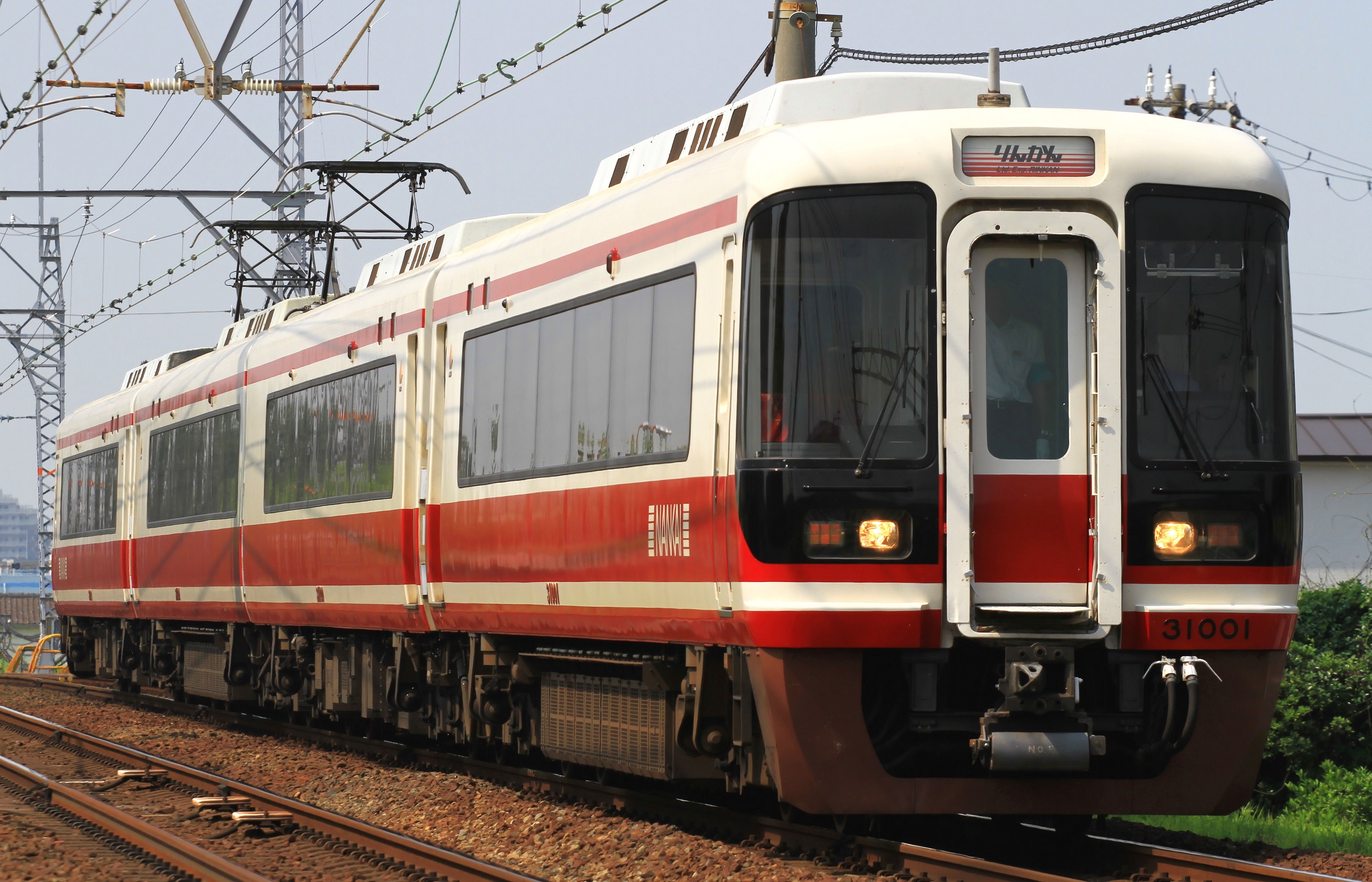 A Nankai Electric Railway 31000 series EMU on a RINKAN limited express service Canon EOS 7D